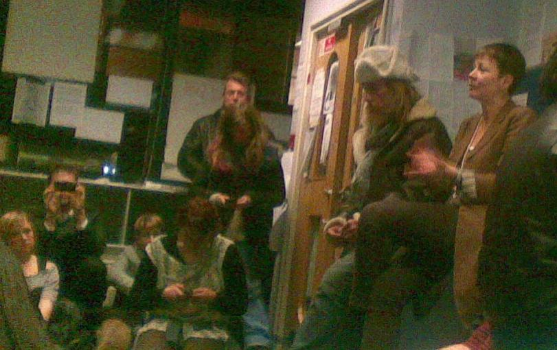 Green party leader Caroline Lucas talking about green economics to the occupy movement at London's Bank of Ideas on 06 Dec 11